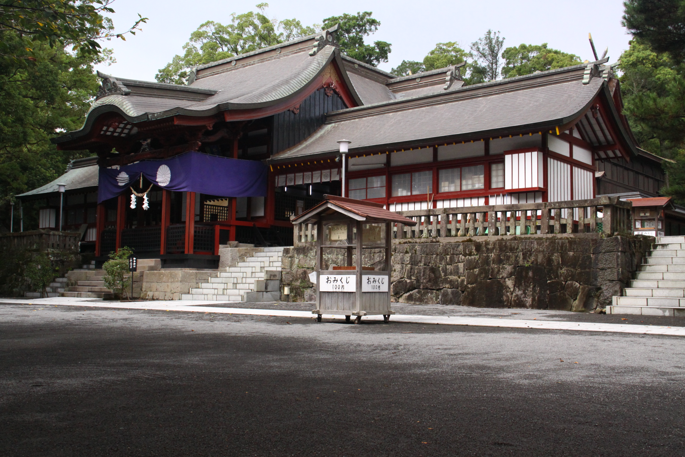 Kagoshimajingu Chokushiden